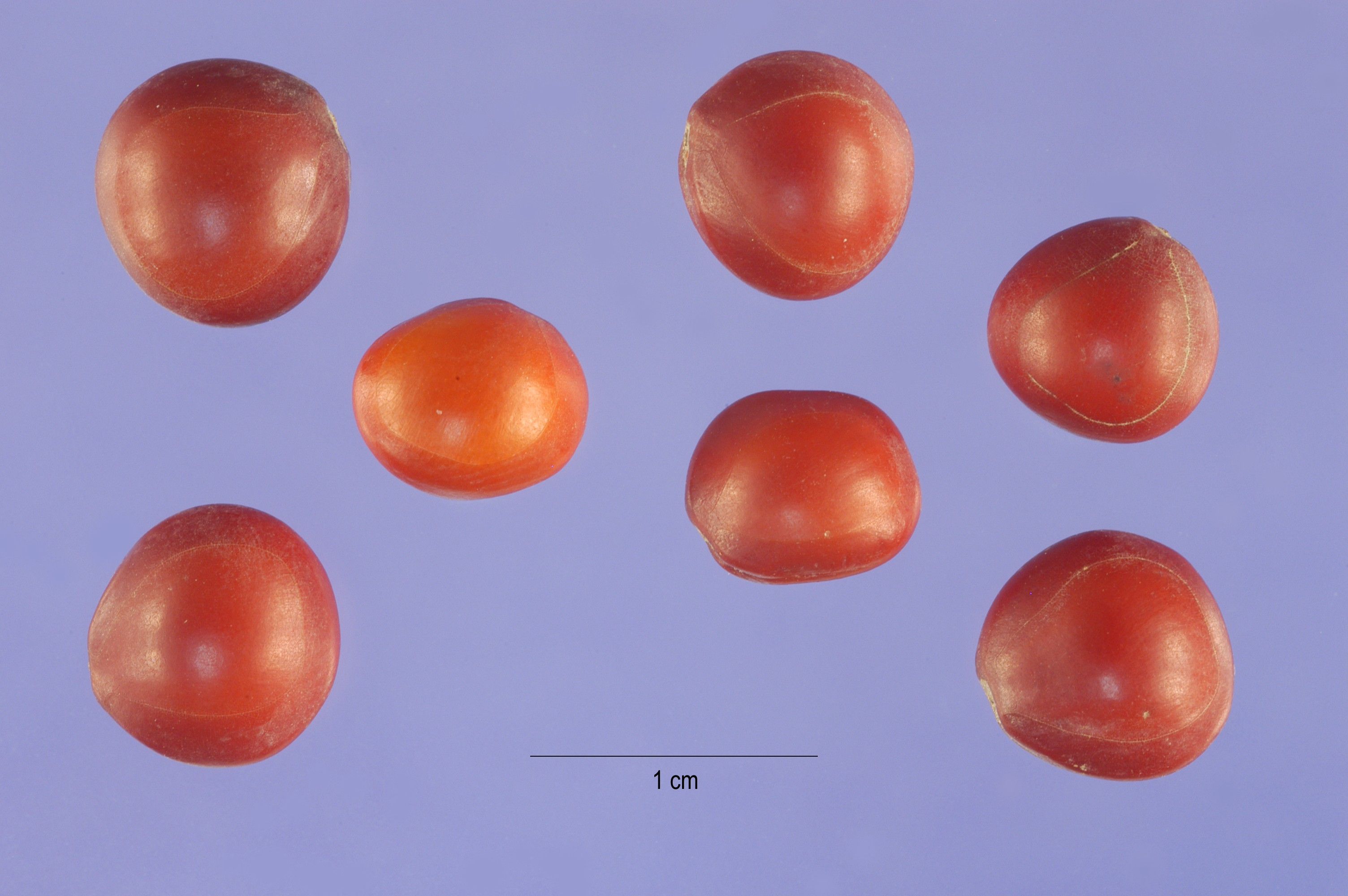 Red Beadtree. Seeds from India.